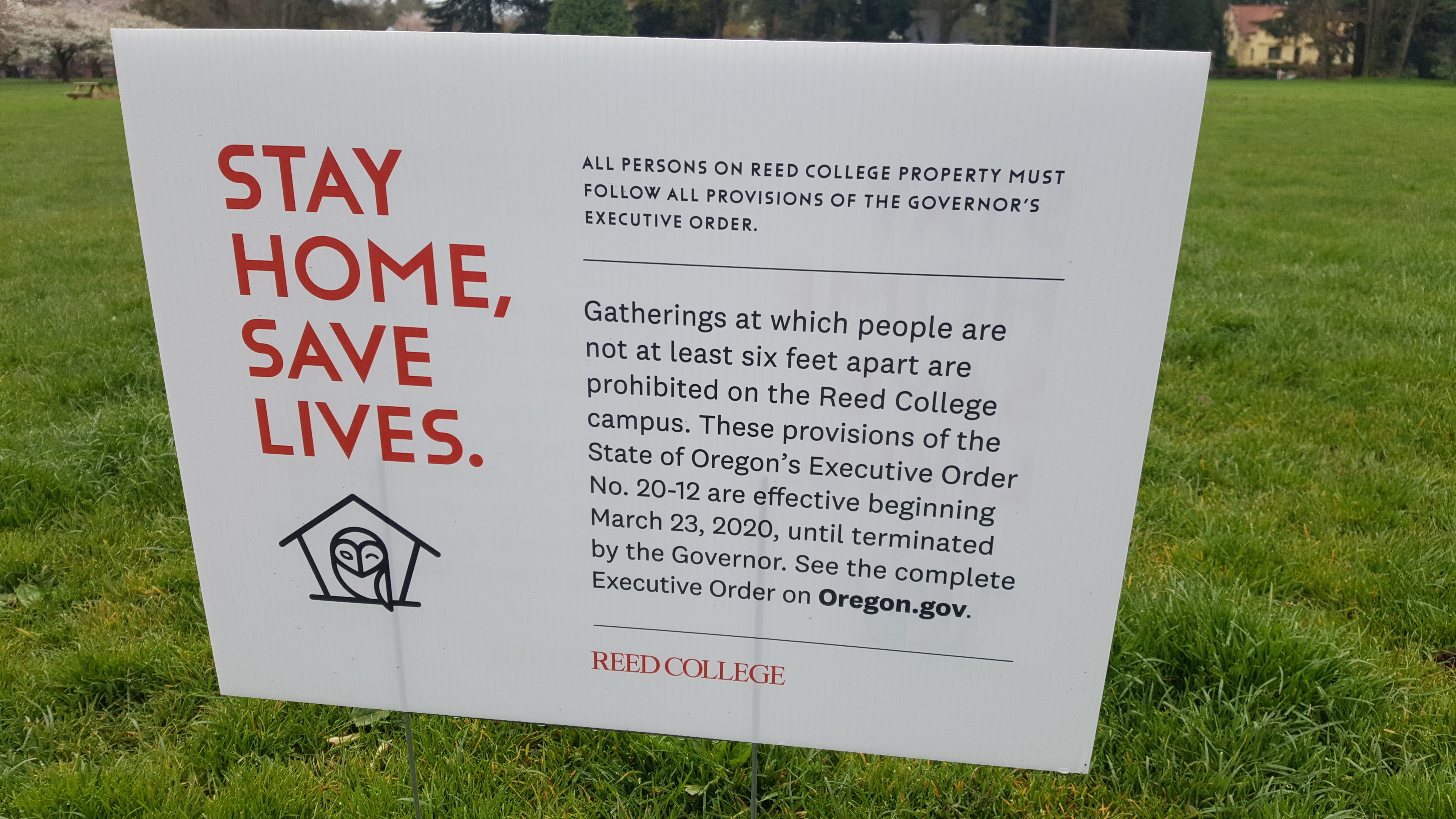 Portland, Oregon during the coronavirus pandemic, March 2020 - Sign at Reed College